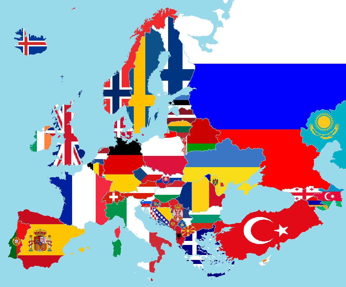 Europe, with all countries coloured in their flag colours. If you are able to add the emblems of the flags, please help, and upload!